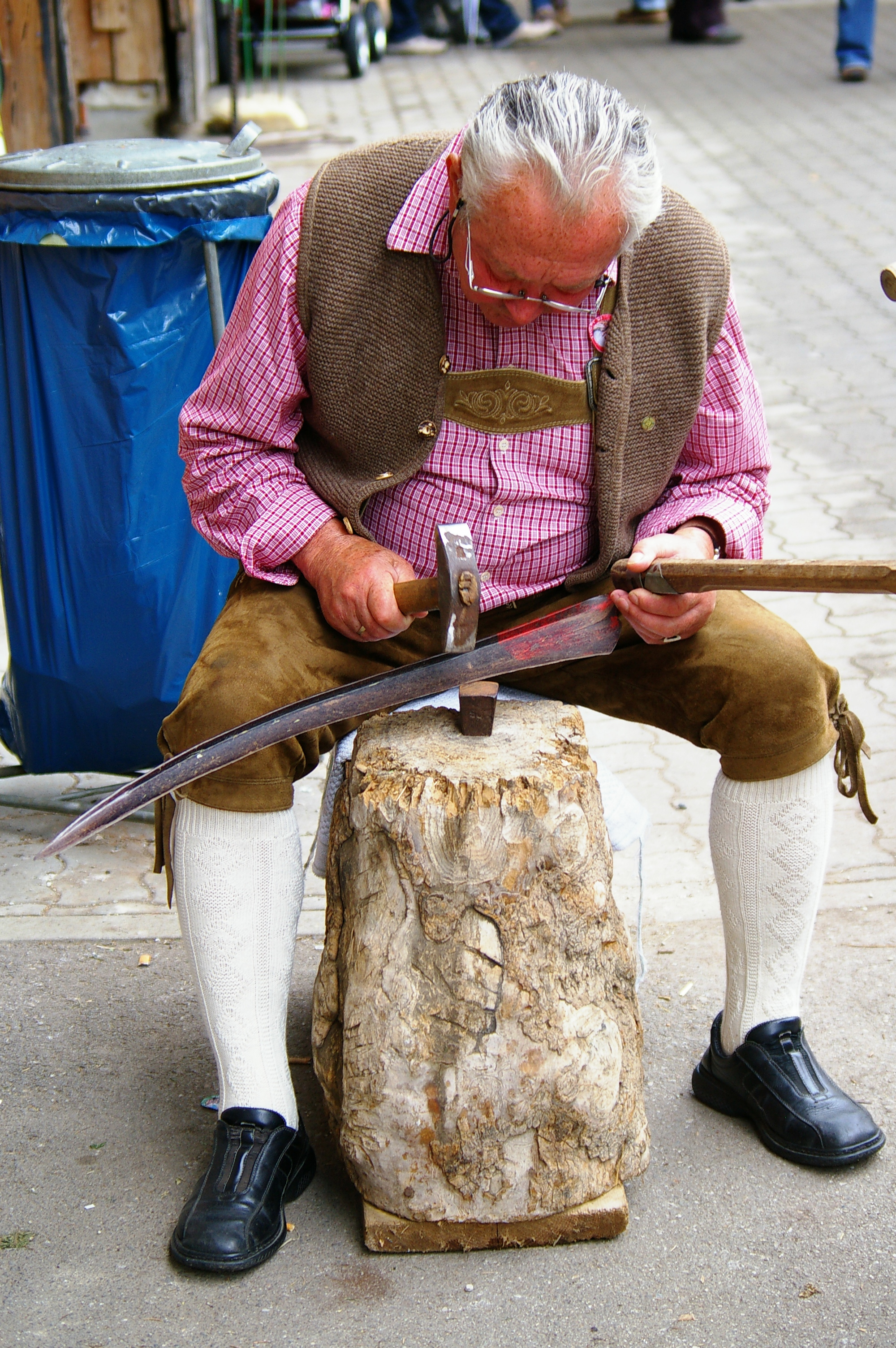 agricultural work from former times